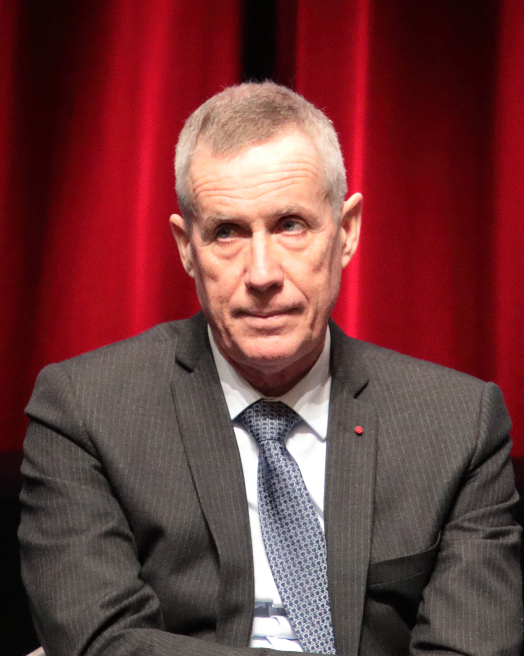 Paris Public Prosecutor (Procureur de la République) François Molins - February 2018